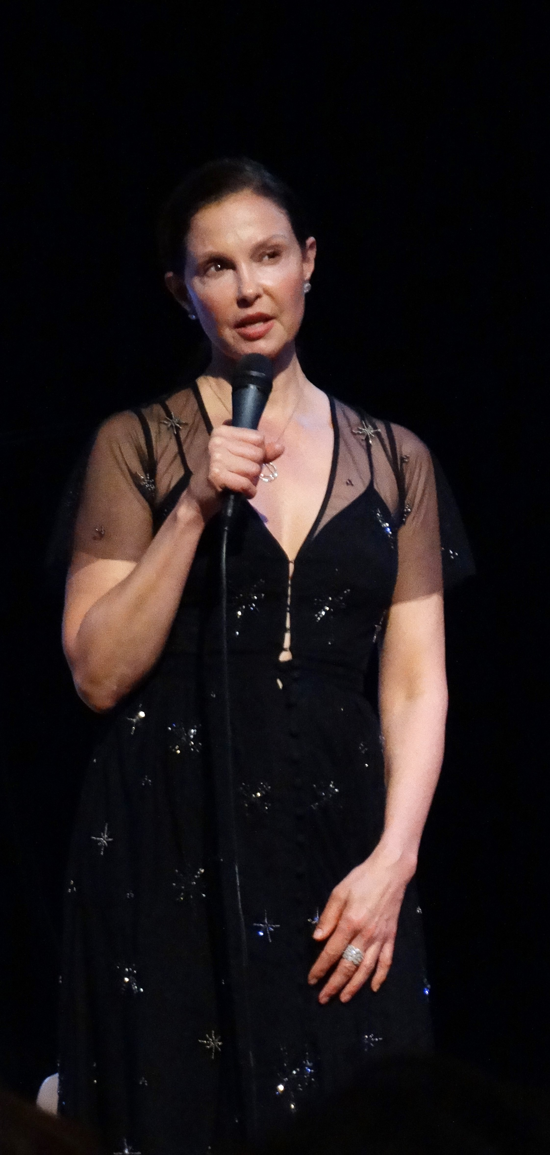 American actress and feminist activist Ashley Judd, as the patron of the international abolitionist event "#MeToo & Prostitution: Survivors Break the Silence!" organized in Paris on November 23rd 2018.